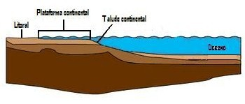 Continental shelf